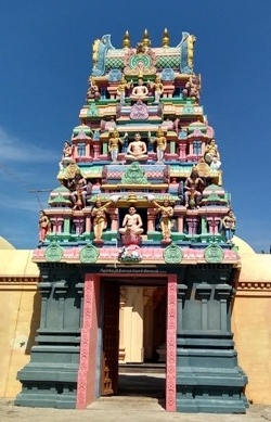 Deepankudi jaintemple தீபங்குடி சமணக்கோயில்